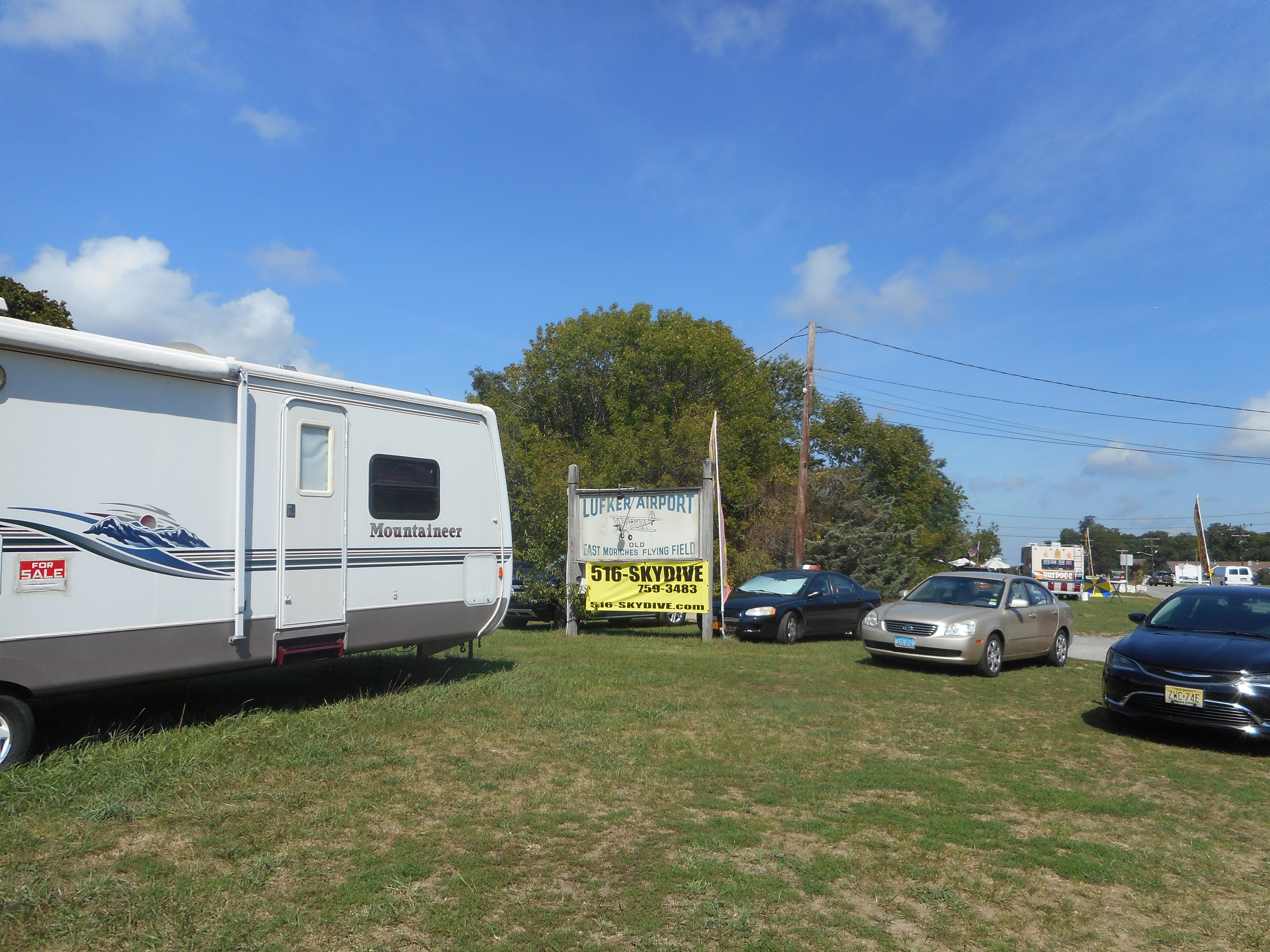 Sign for the Lufker Airport in Eastport, New York. Details to come later.